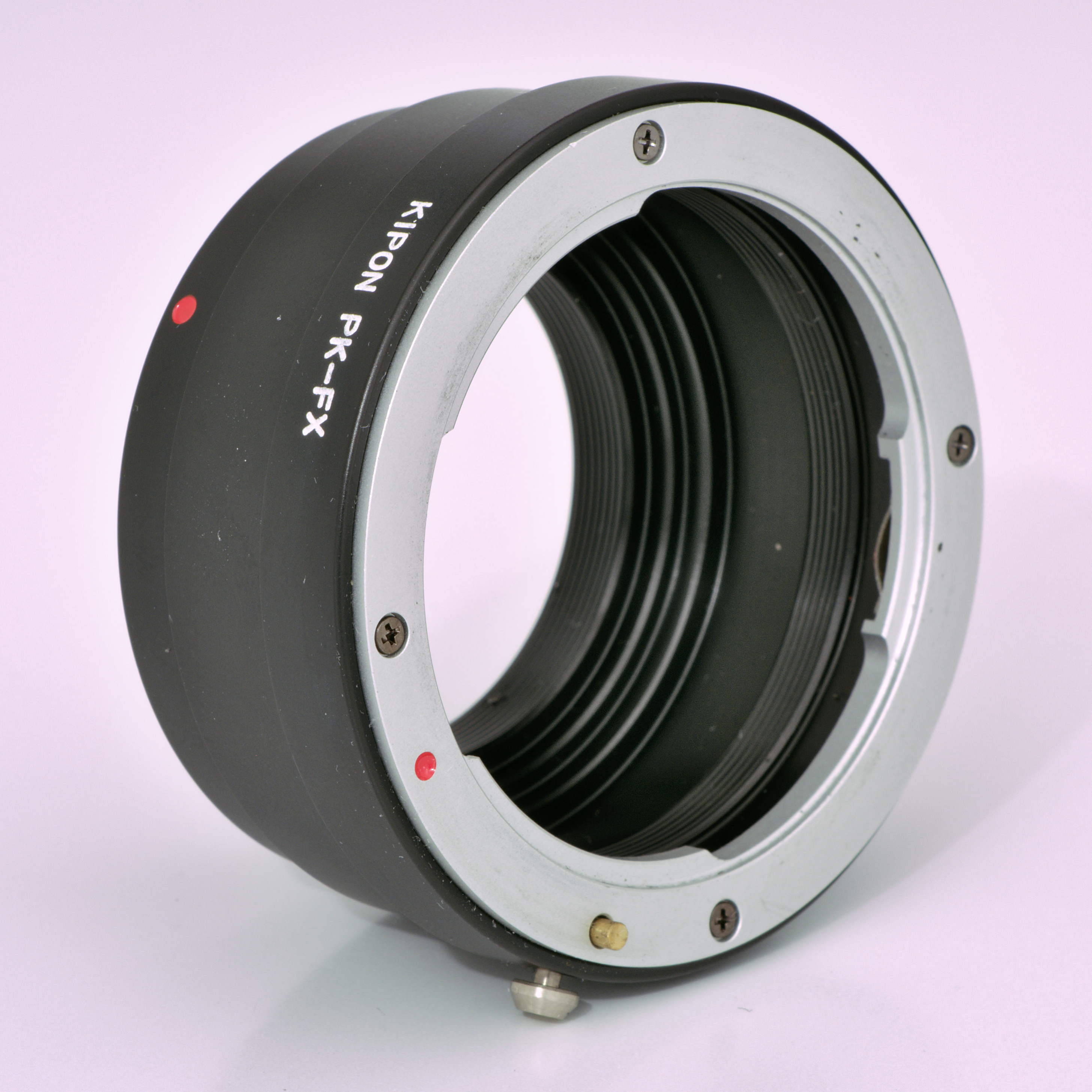 Photographic accessory